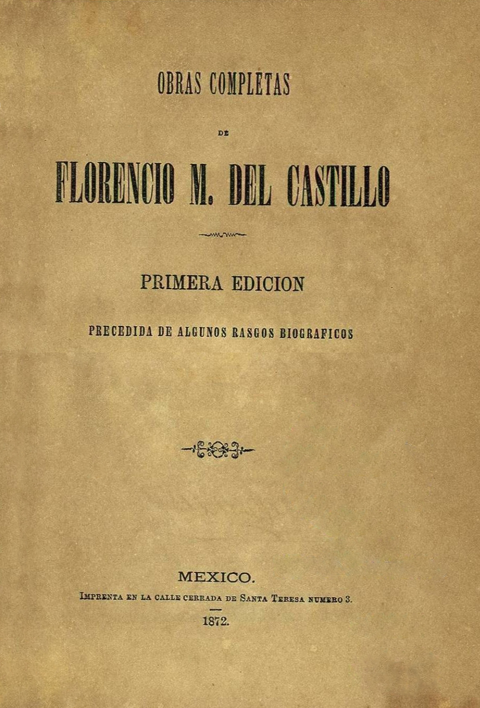 Bookcover Complete Works of Florencio María del Castillo edited in 1872.